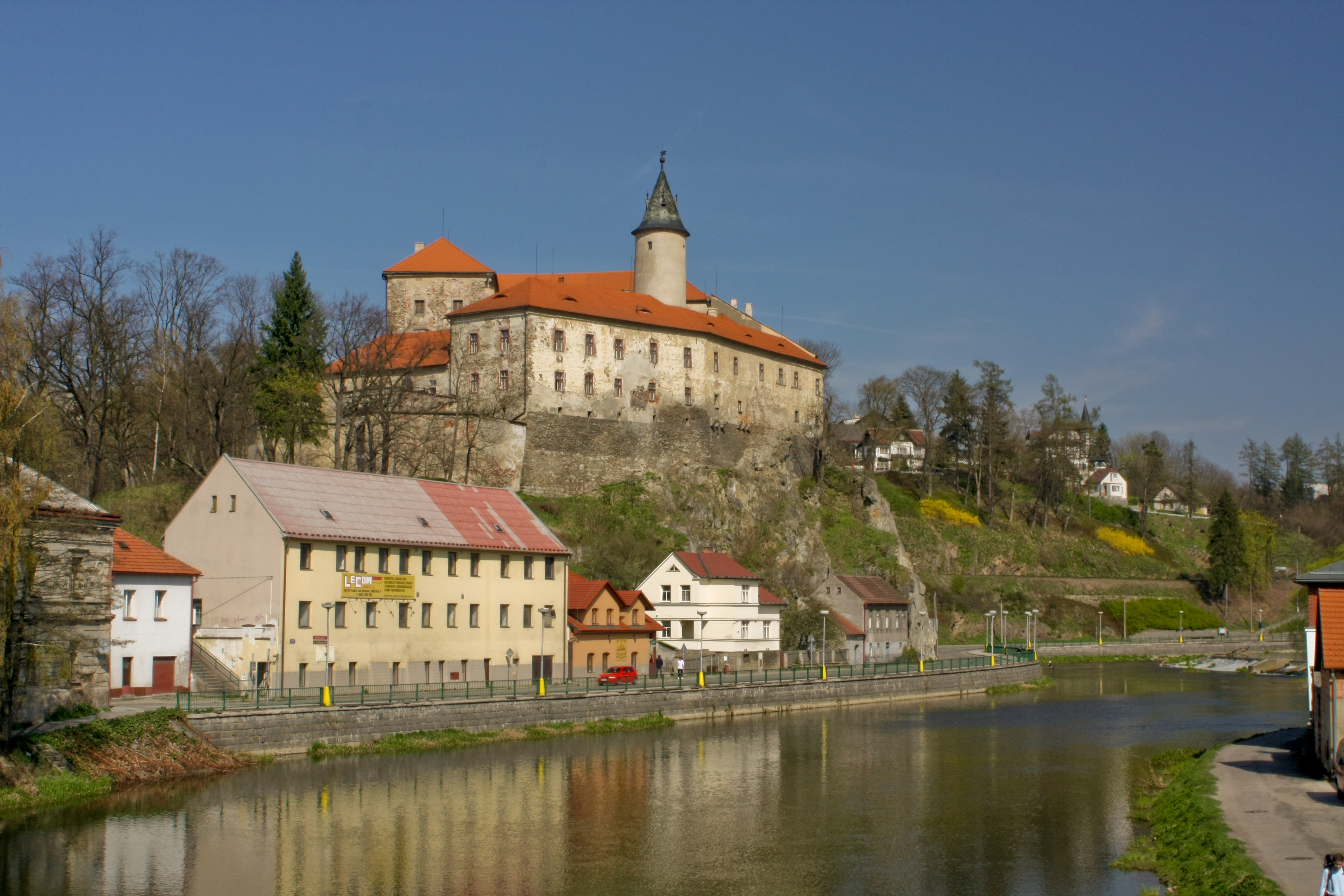 Ledeč nad Sázavou castle, Havlíčkův Brod District, Czech Republic Object location49° 41′ 46″ N, 15° 16′ 30″ E